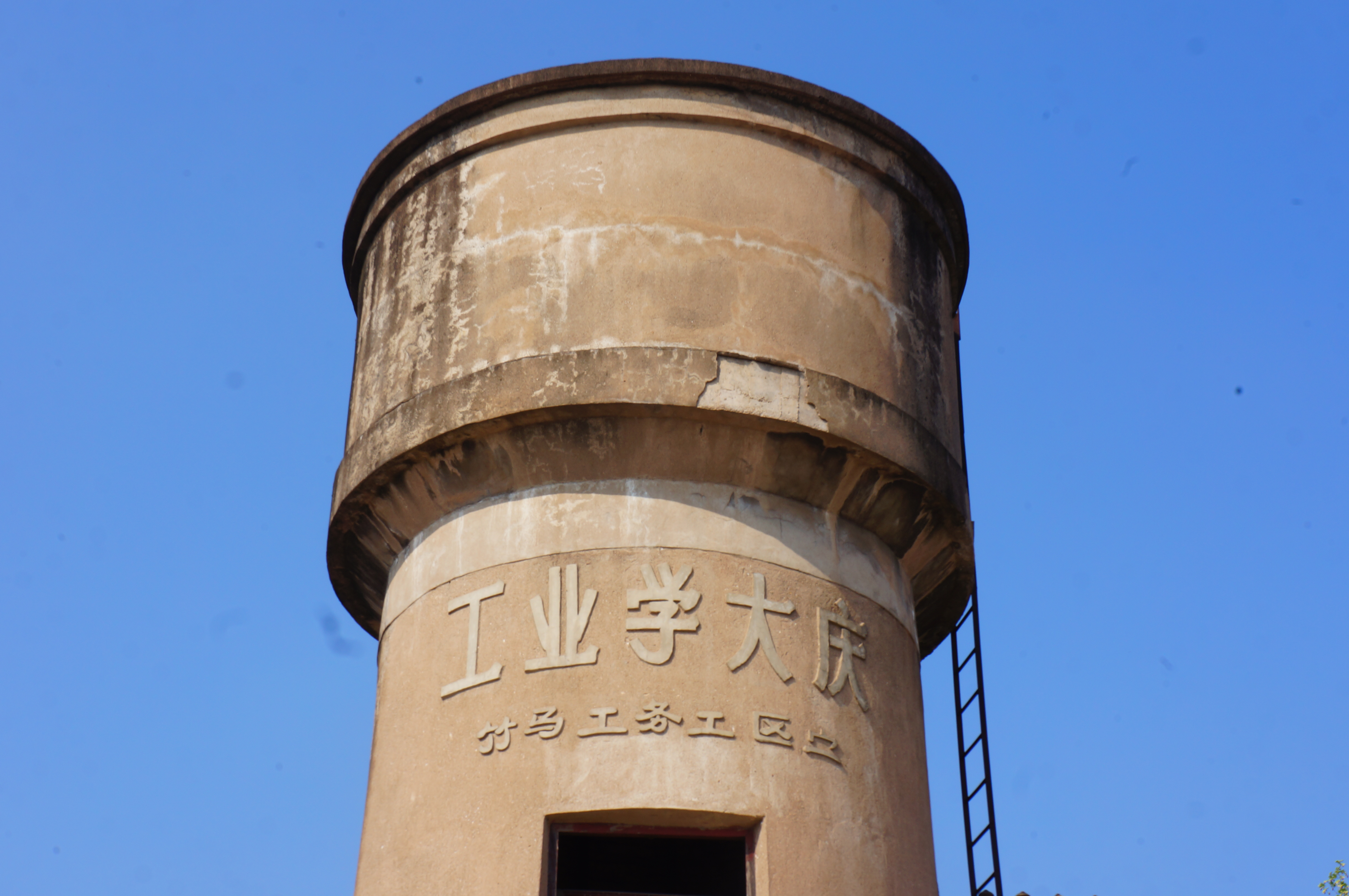 201704 Water Tower at Zhuma Railway Station